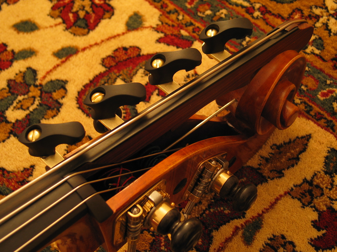 An image showing a low C extension on a Double bass.